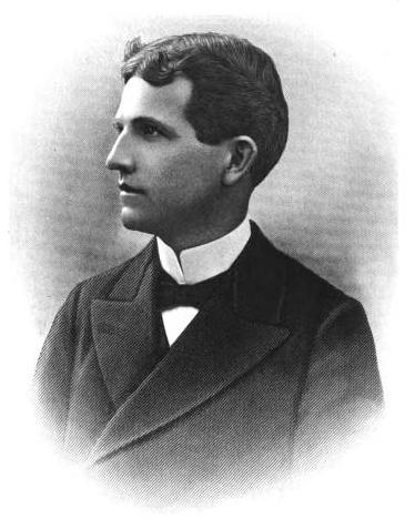 Portrait of Junius Edgar West